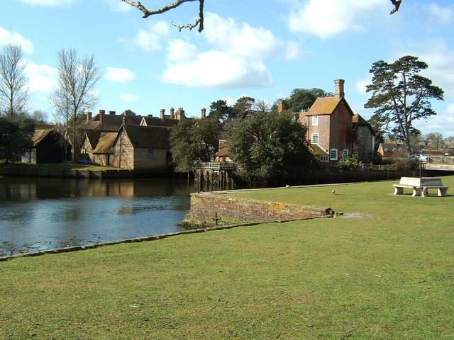 Beaulieu Village Viewed across the River Beaulieu near Beaulieu Abbey